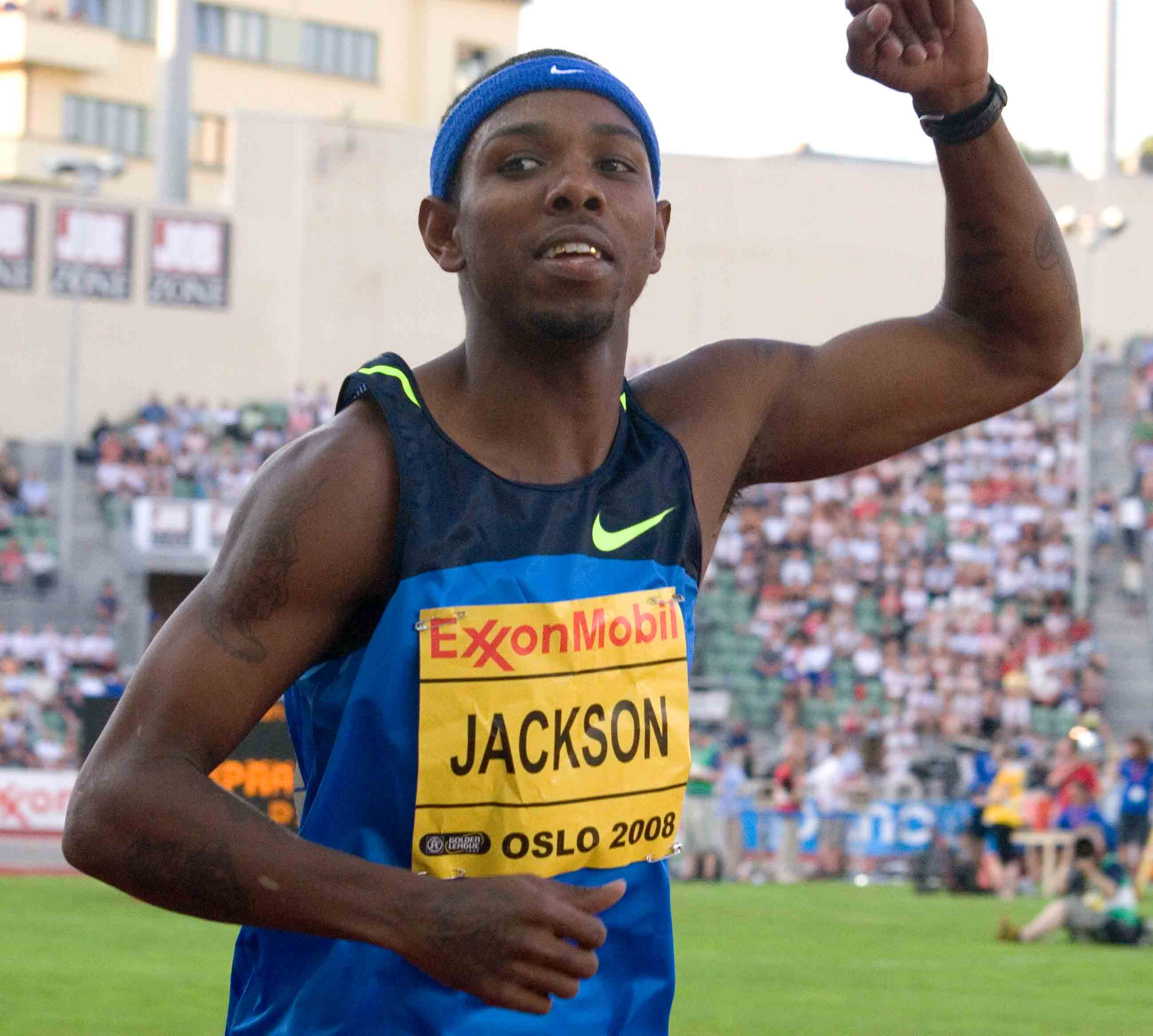 Bershawn Jackson Bislett Games 2008